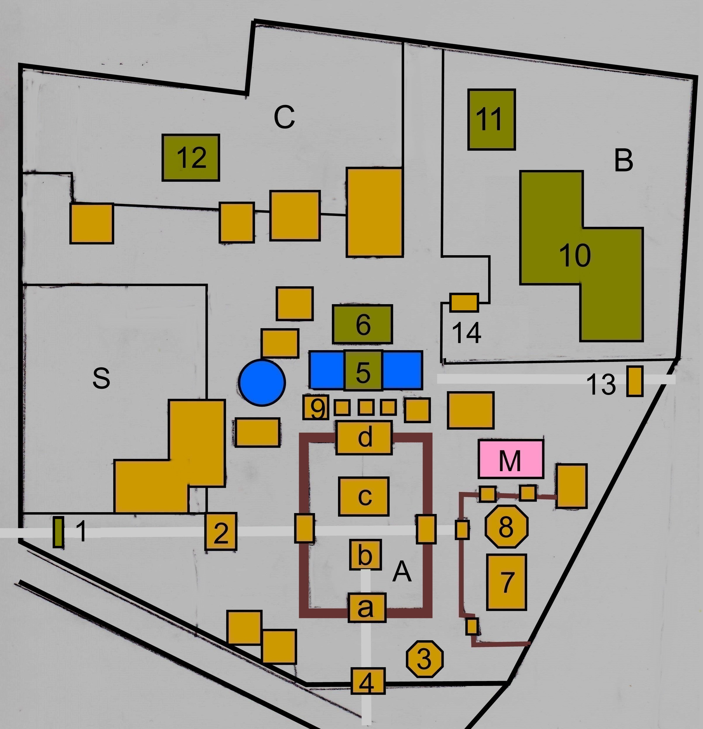 Layout (sketch) of Shitenno-ji temple at Osaka Japan